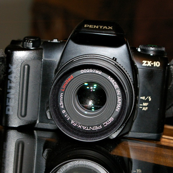 Pentax ZX-10 SLR with smc-fa 43mm f/1.9 Limited lens.